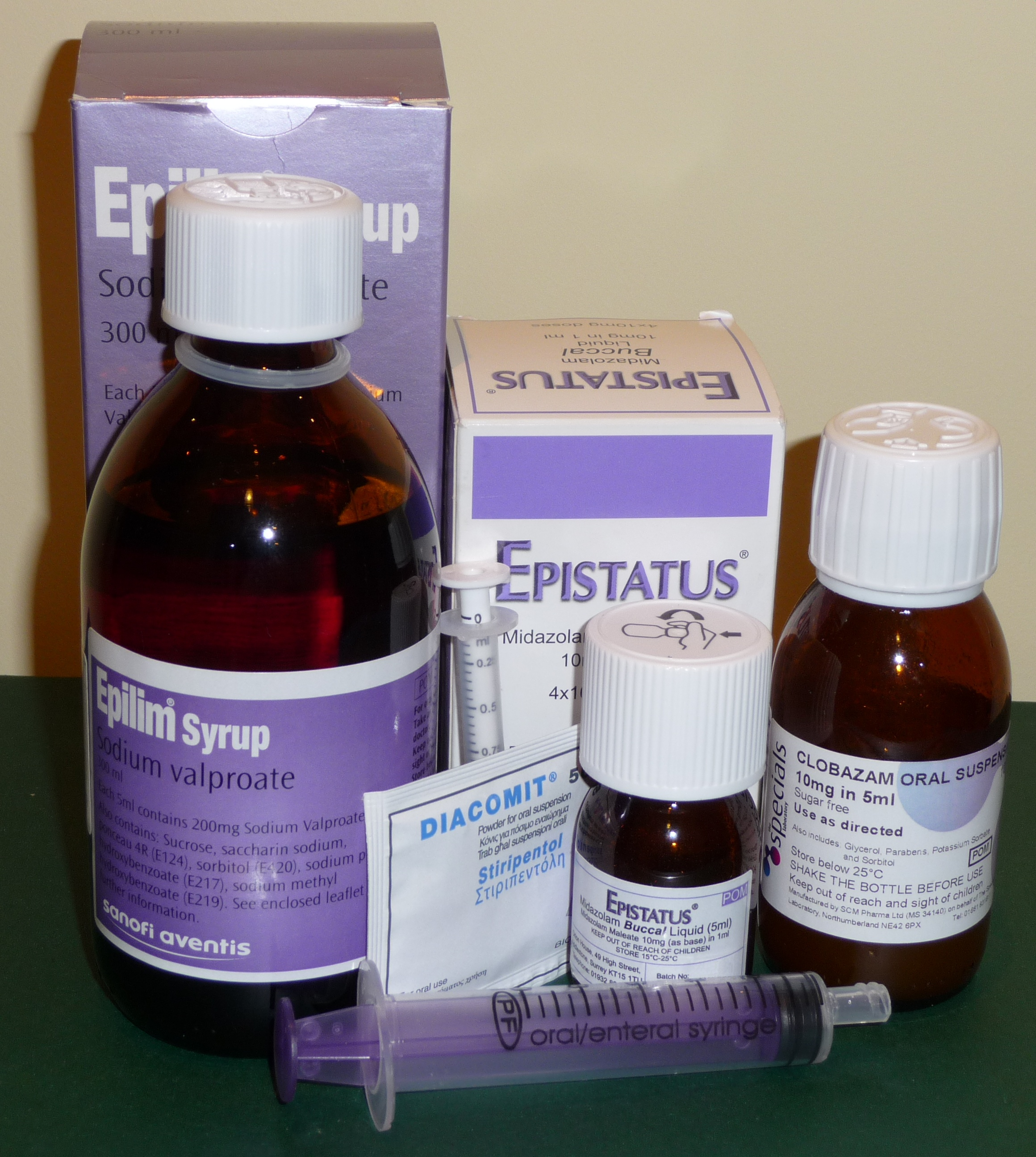 The anticonvulsant drugs sodium valproate, stiripentol, clobazam and midazolam.